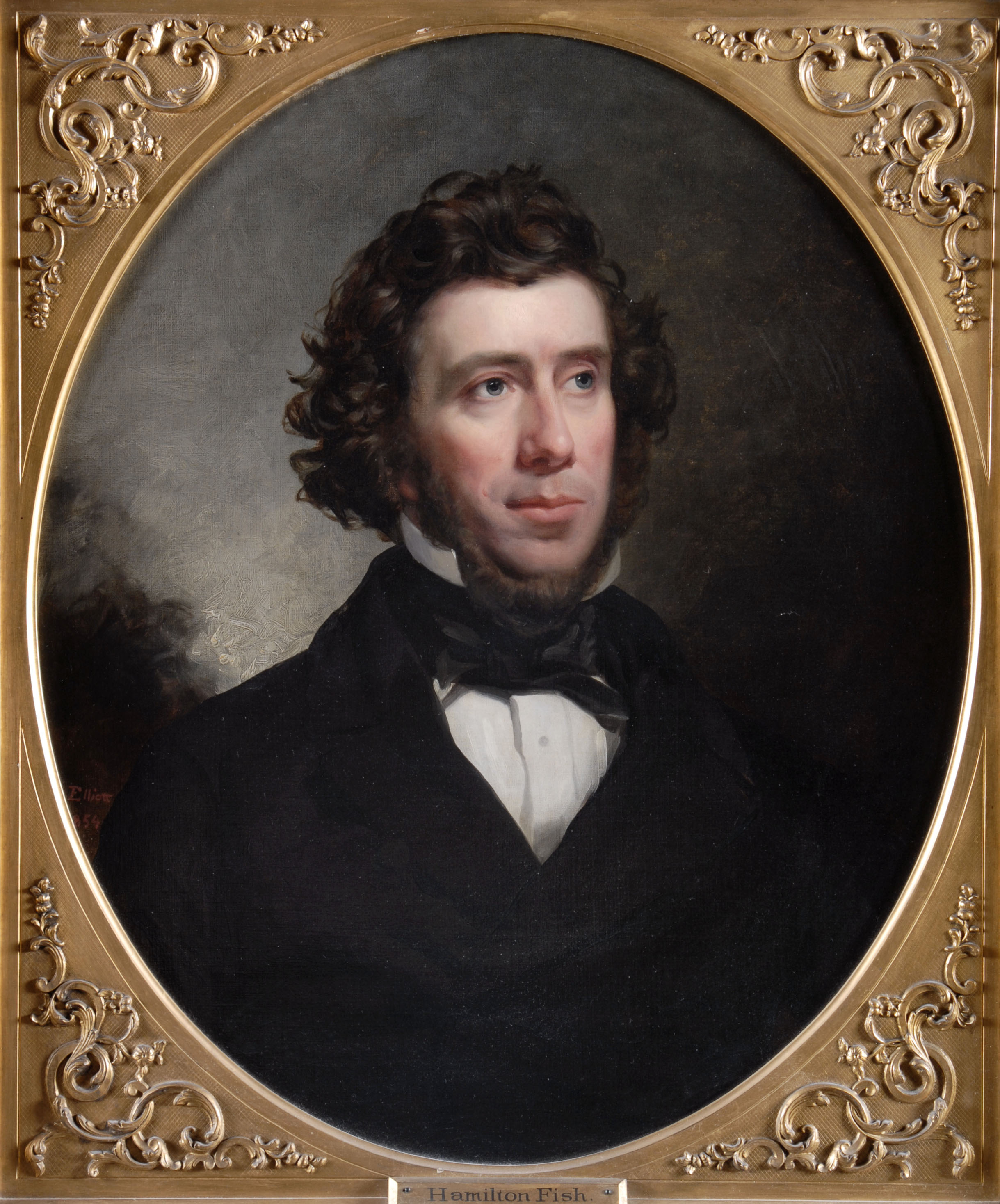 Official Gubernatorial portrait of New York Governor (and United States Secretary of State) Hamilton Fish.